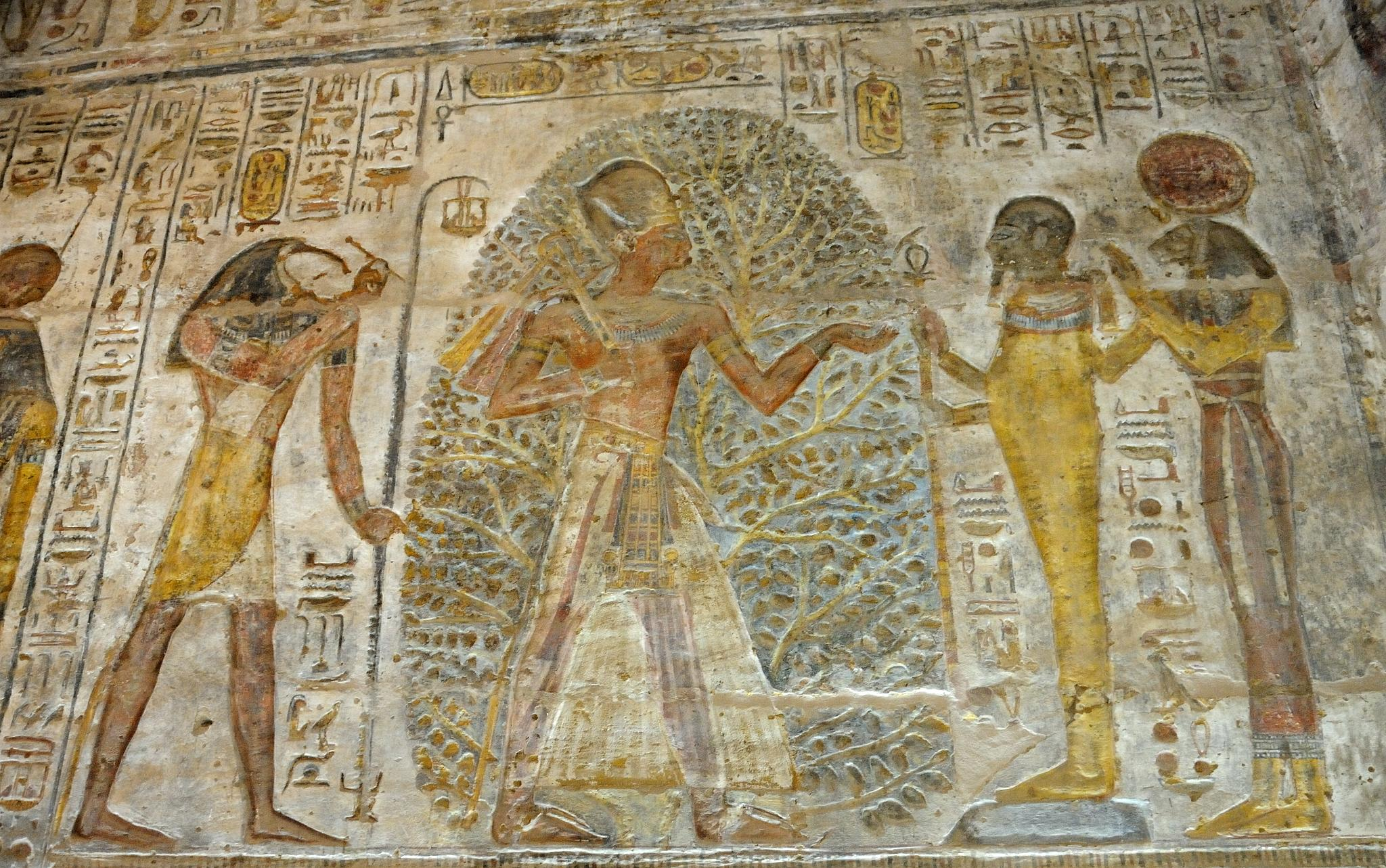 A well preserved temple relief of pharaoh Ramesses II at the Temple of Derr.